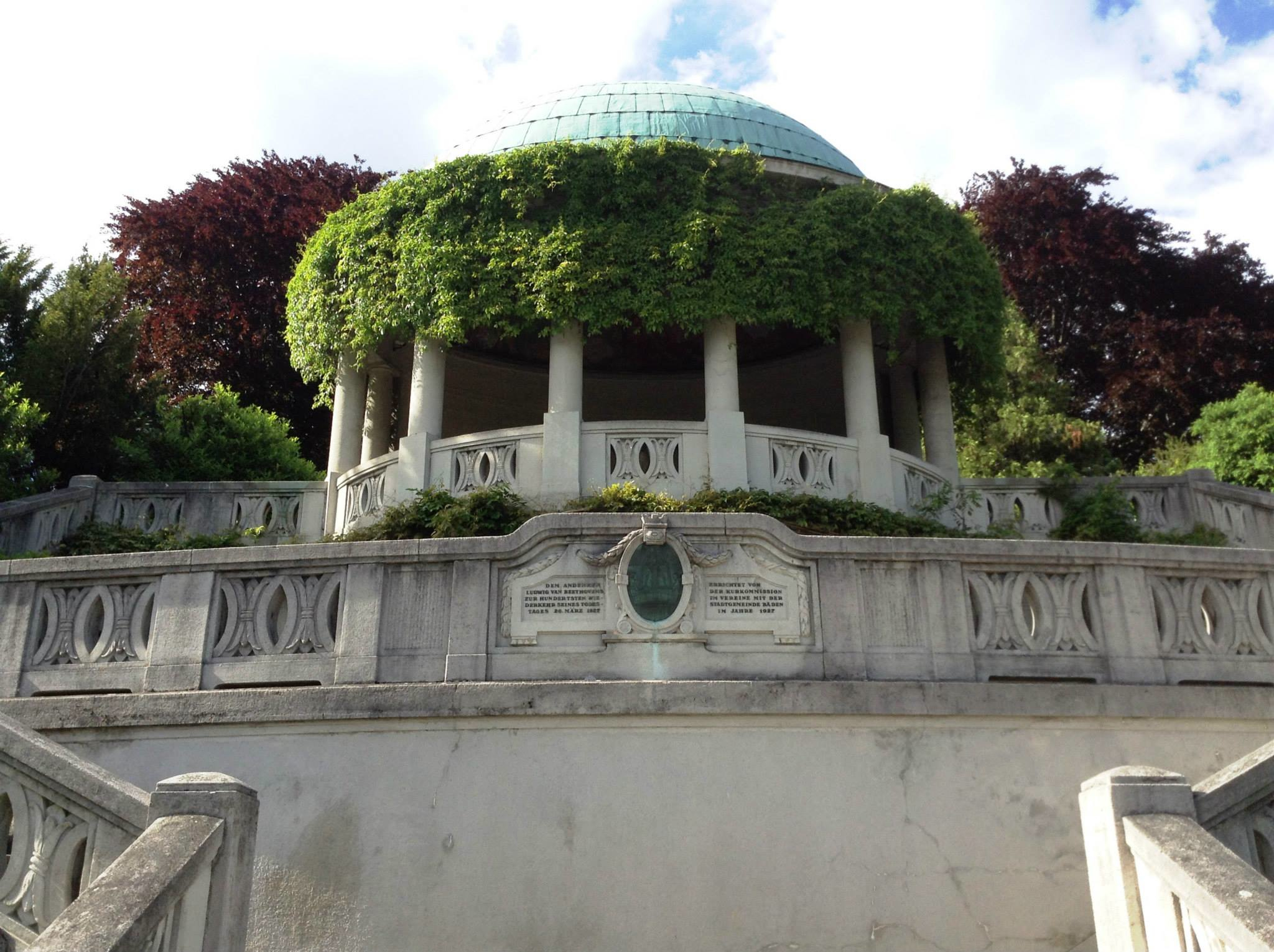 The Beethoven Temple in the Kurpark in Baden, Austria